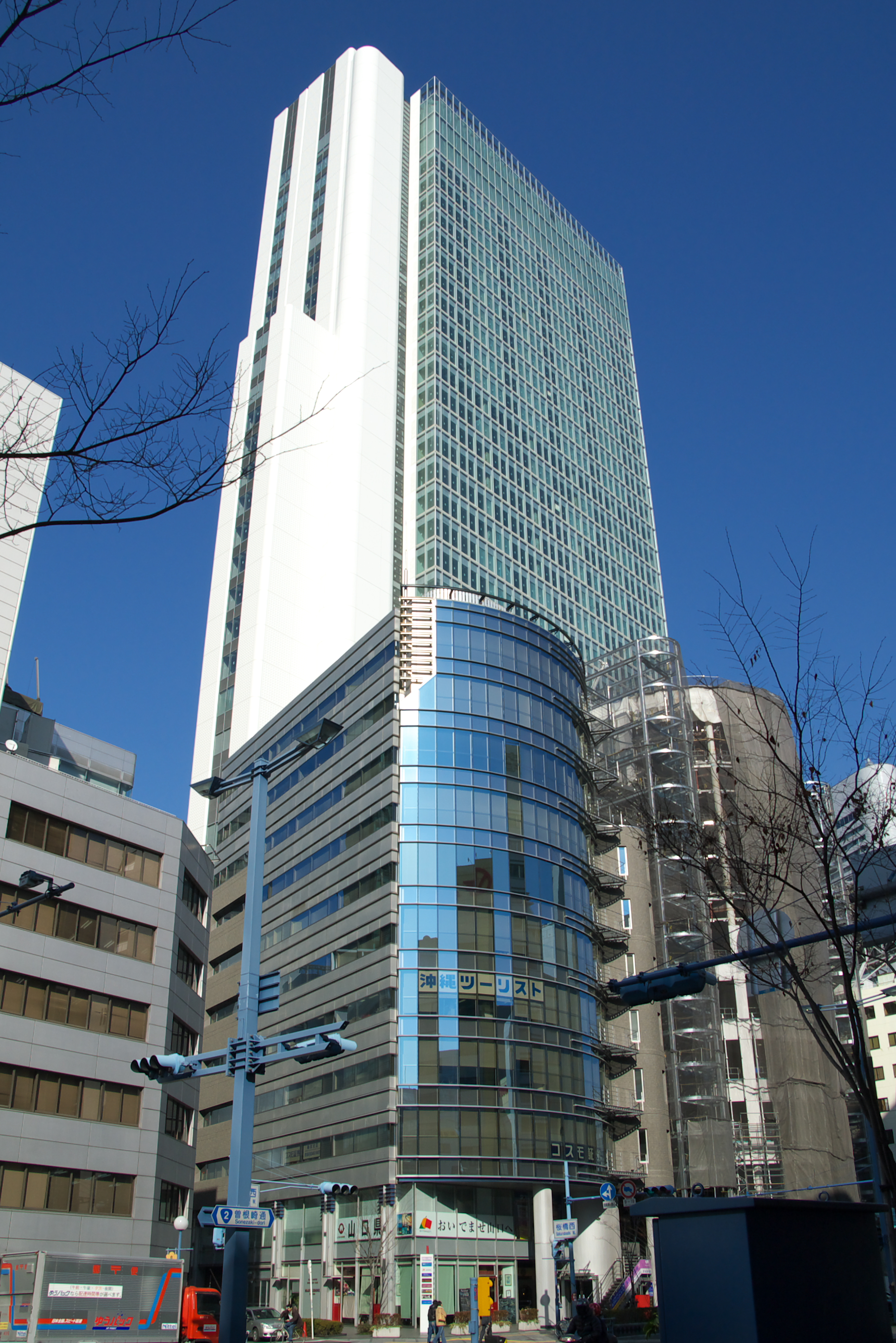 Photograph of BREEZÉ TOWER in Kita-ku, Osaka, Osaka Prefecture, Japan.